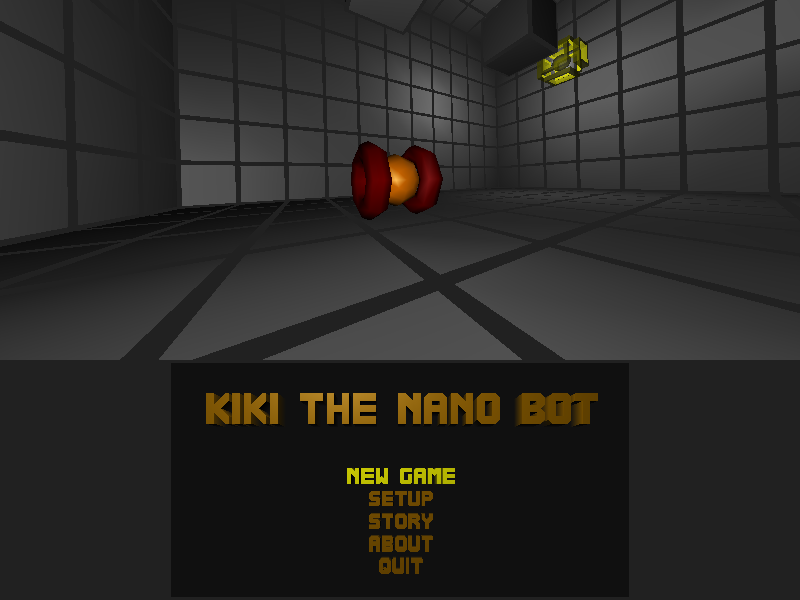 Screenshot of Kiki the nano bot